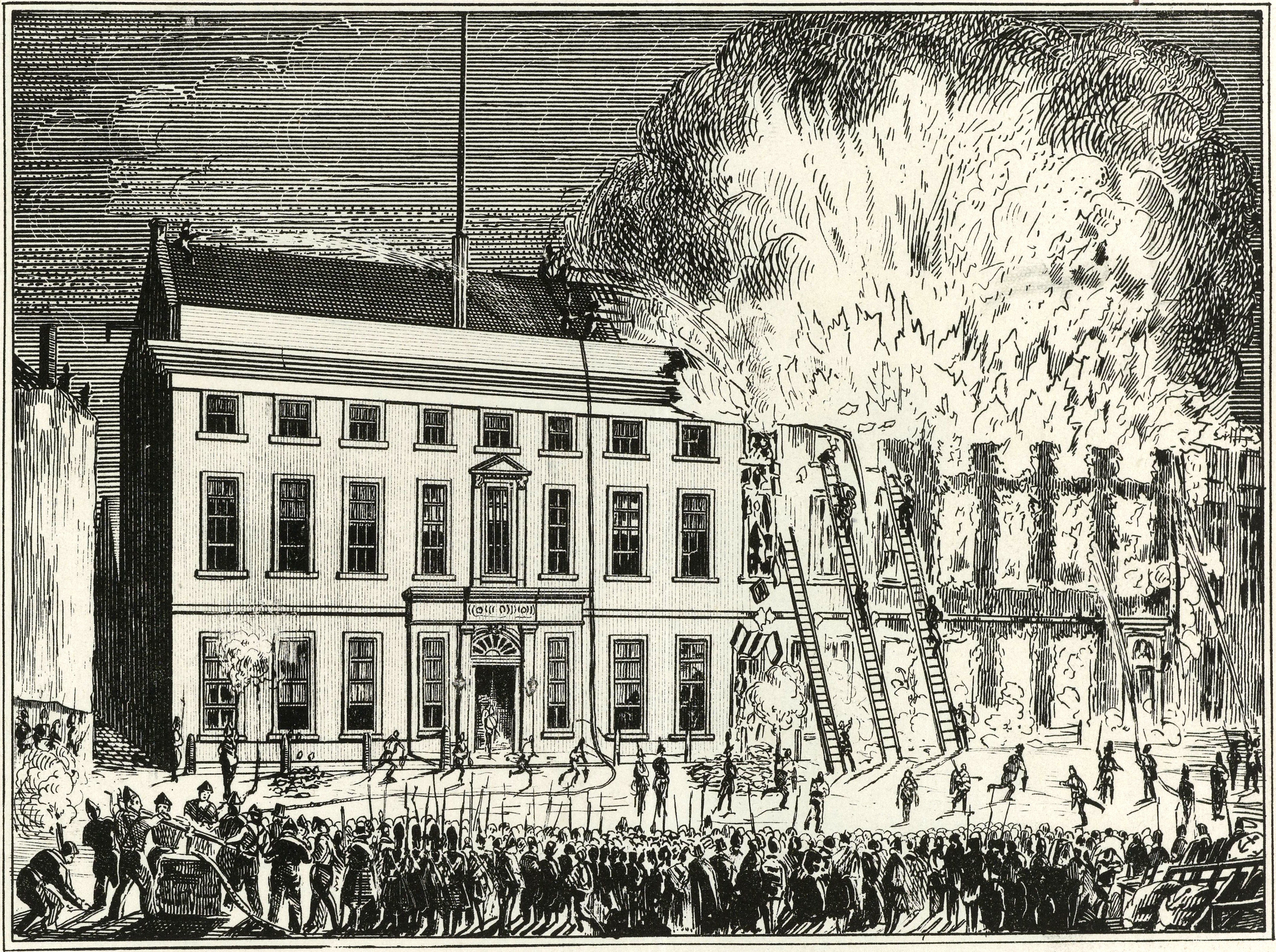 The Department of the Navy of the Netherlands, at Lange Voorhout nr. 7 in The hague, during the fire of 8 January 1844.